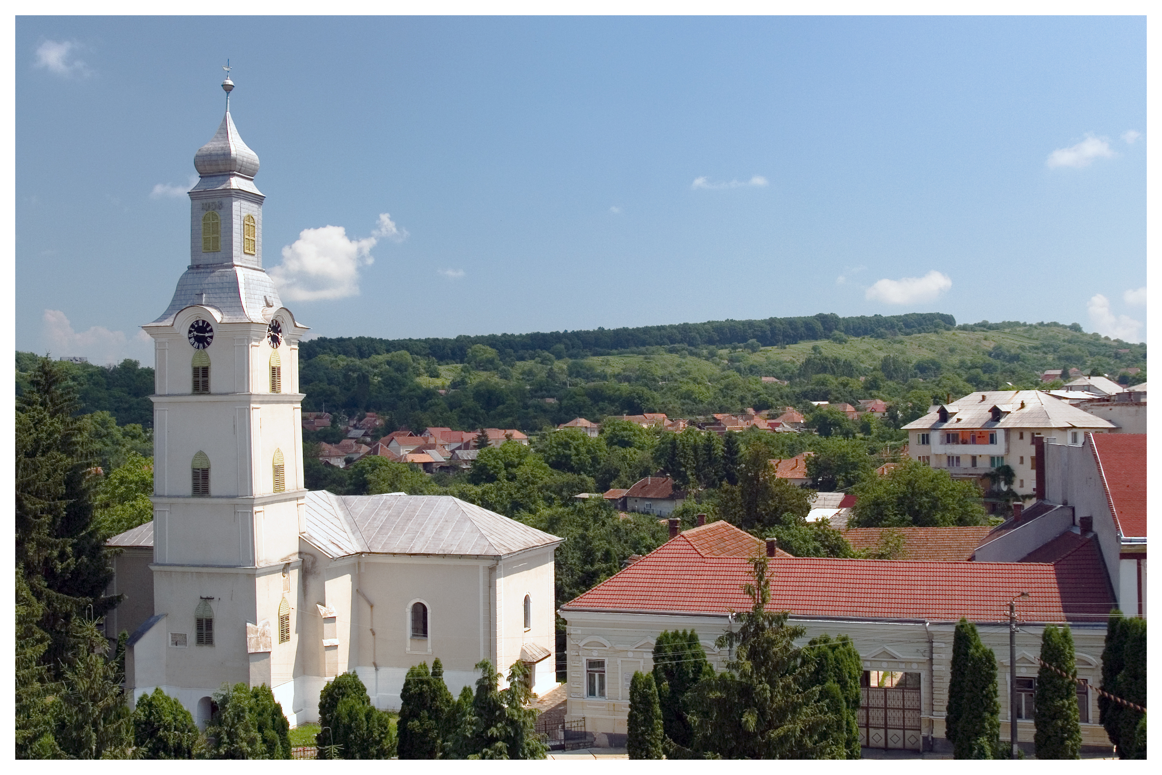 Probably members of two families, Miklós Drágffy and his wife, and Eufémia Jakcs or their son, Bertalan, later voivod of Transylvania bulit the church somwhere in the middle of the second half of the 15th century. Governor Drágffy János (1525-26) was an important patron of the church: he made some changes on the church in 1519, and had a lombard-patterned renaissance sedile made for it in 1522. In 1614, due to the generosity of Prépostváry Zsigmond and his wife Széchy Katalin, the rules os the market-town then, the tower at the western facade is bulit, as shown by the escutcheoned memorial tablet on its southern wall. The medieval nave is enlarged in 1801, and then 1905, eith square side-aisles and the interiour gets a classicist proportions.